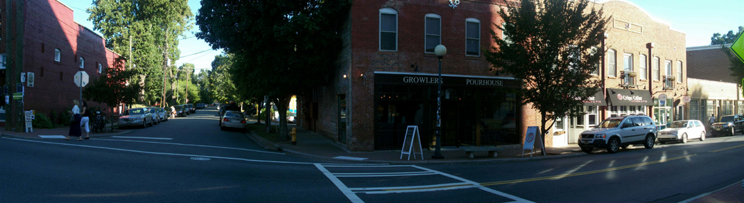 Downtown NoDa (North Charlotte), N. Davidson St. at 35th St: Growlers Pourhouse, Crepe Cellar